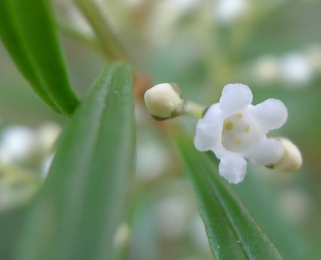 Logania albiflora. Heathcote National Park, NSW Australia, July 2011.